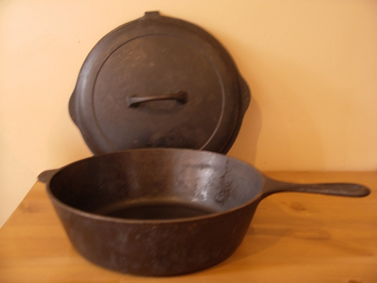 A 10-inch (26 cm) cast-iron pan with lid. Photgraphed by myself, 7/17/06